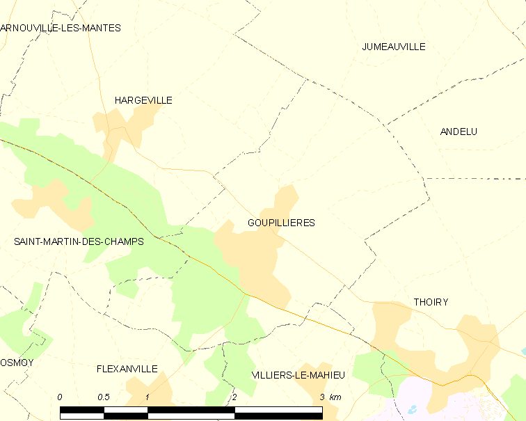 Map of French municipality Goupillières